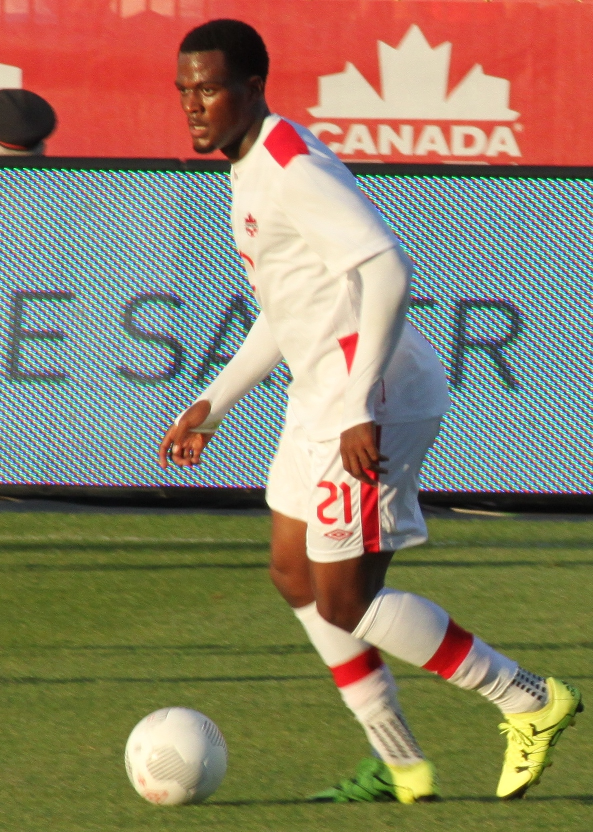 Cyle Larin playing for the Canada national football team against Jamaica in the 2015 CONCACAF Gold Cup